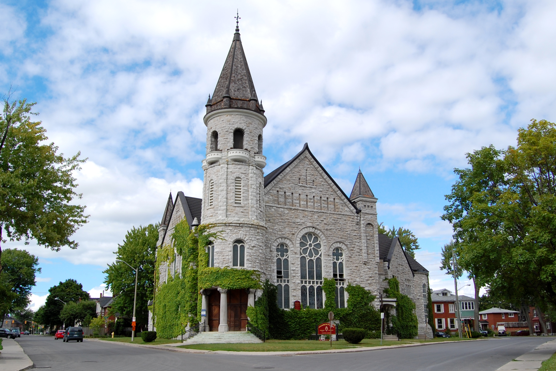 Chalmer's Church in Kingston, Ontario, Canada.